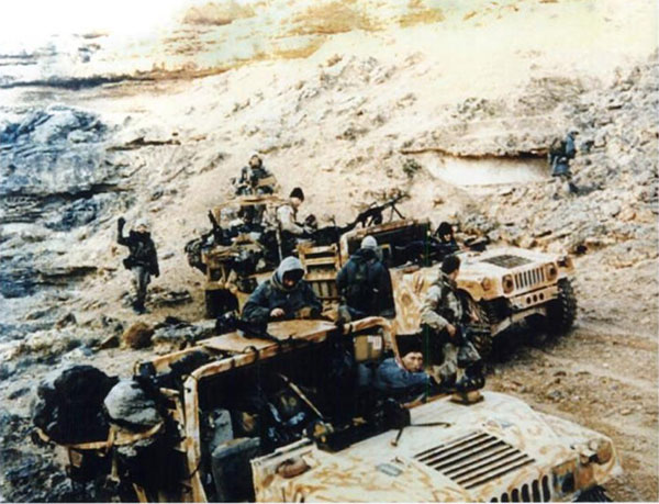 Delta Force, soldiers pictured deep behind Iraqi lines during the 1991 Gulf War. JSOC teams (Delta Force and DEVGRU, supported by AFSOC elements, were deployed into the Western Iraqi desert in response to Saddam Hussein launching SCUD missiles at Israel. Using modified HMMWVs, Delta Force scouted large tracts of desert searching for the elusive, mobile SCUD launcher vehicles and seeking out and disabling the communications infrastructure that allowed them to operate. The British Special Air Service were also deployed on SCUD hunting operations.